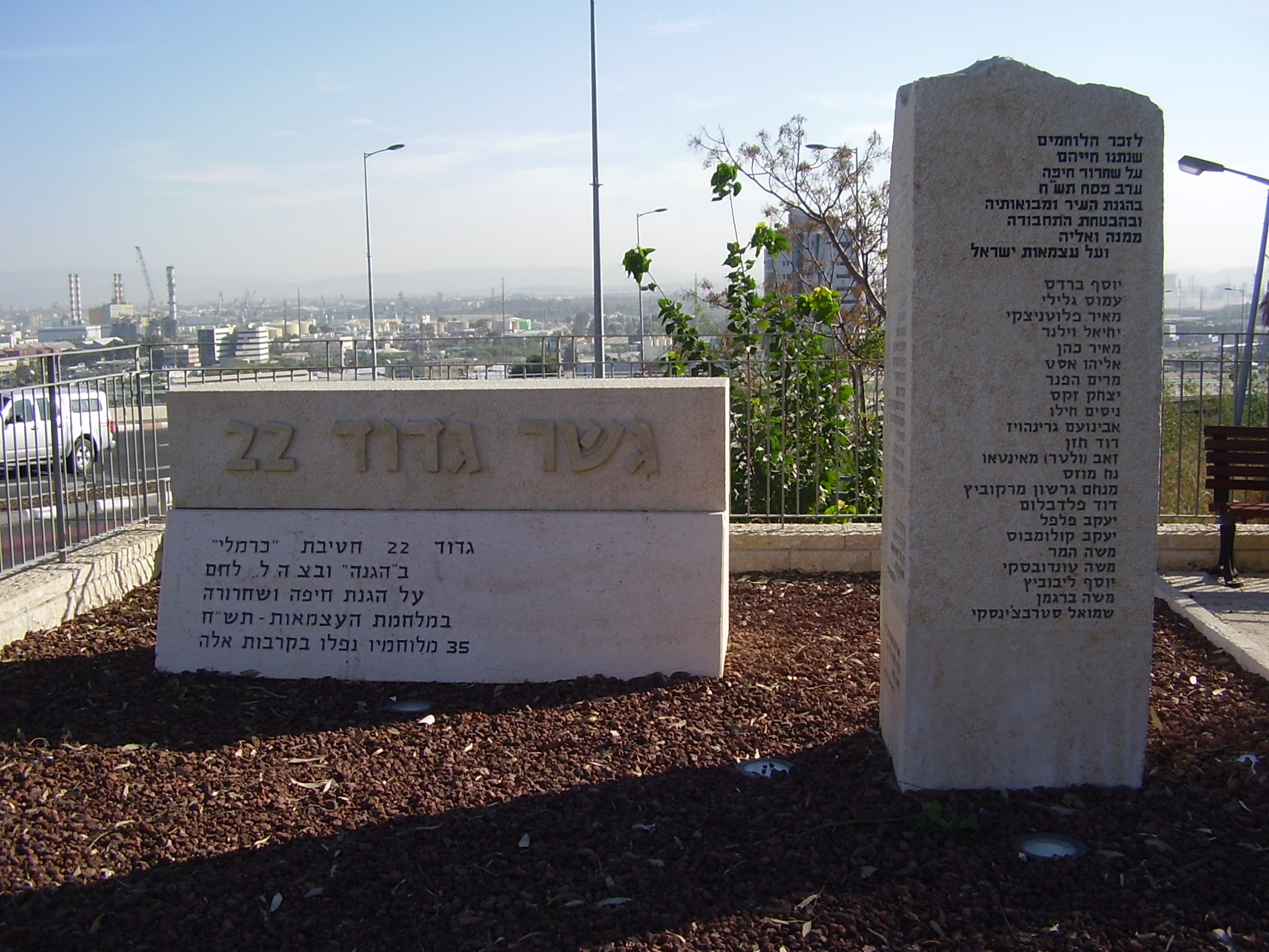 22 battalion memorial in Haifa